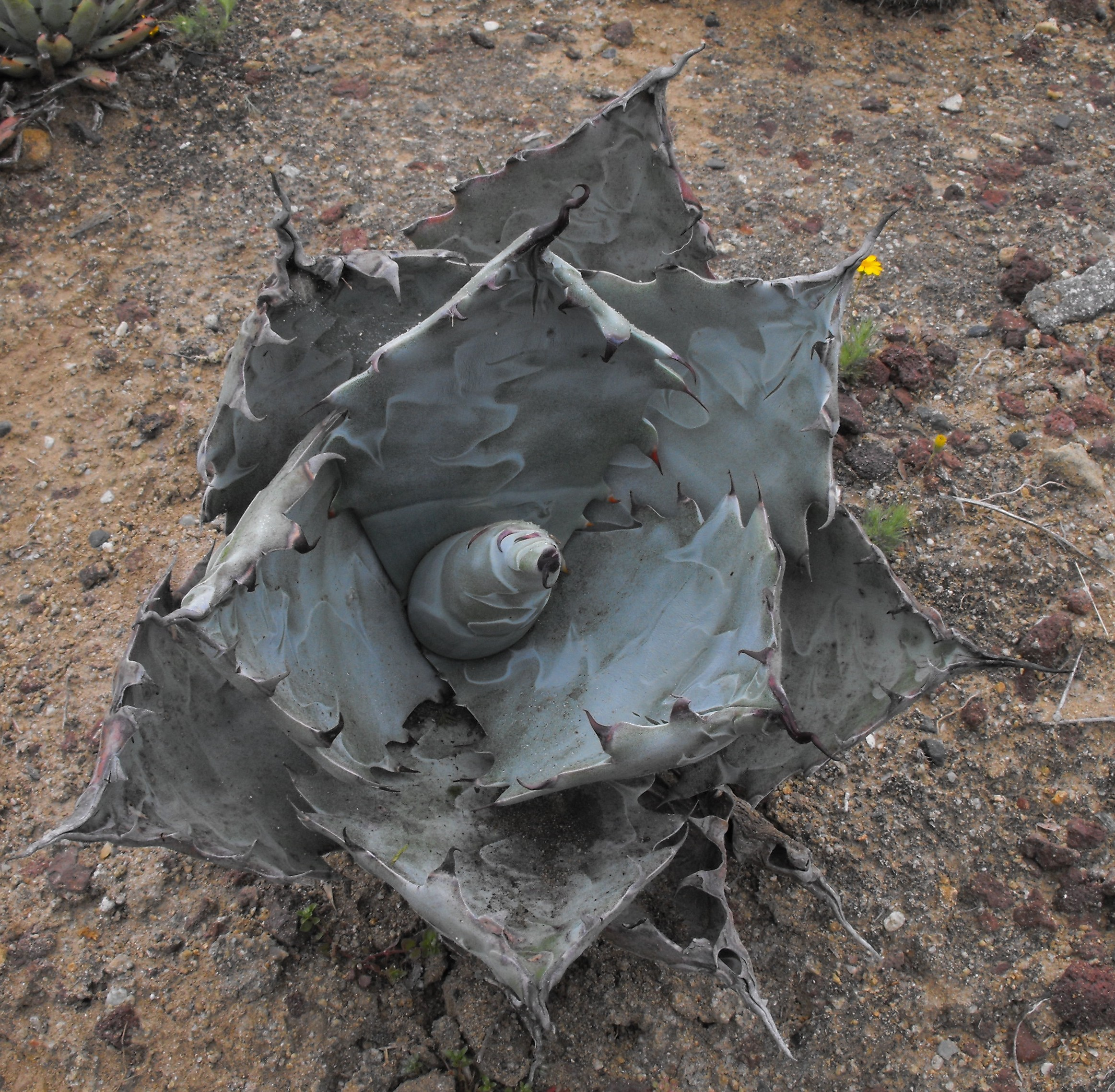 Agave colorata at Quail Botanical Gardens in Encinitas, California, USA. Identified by sign.